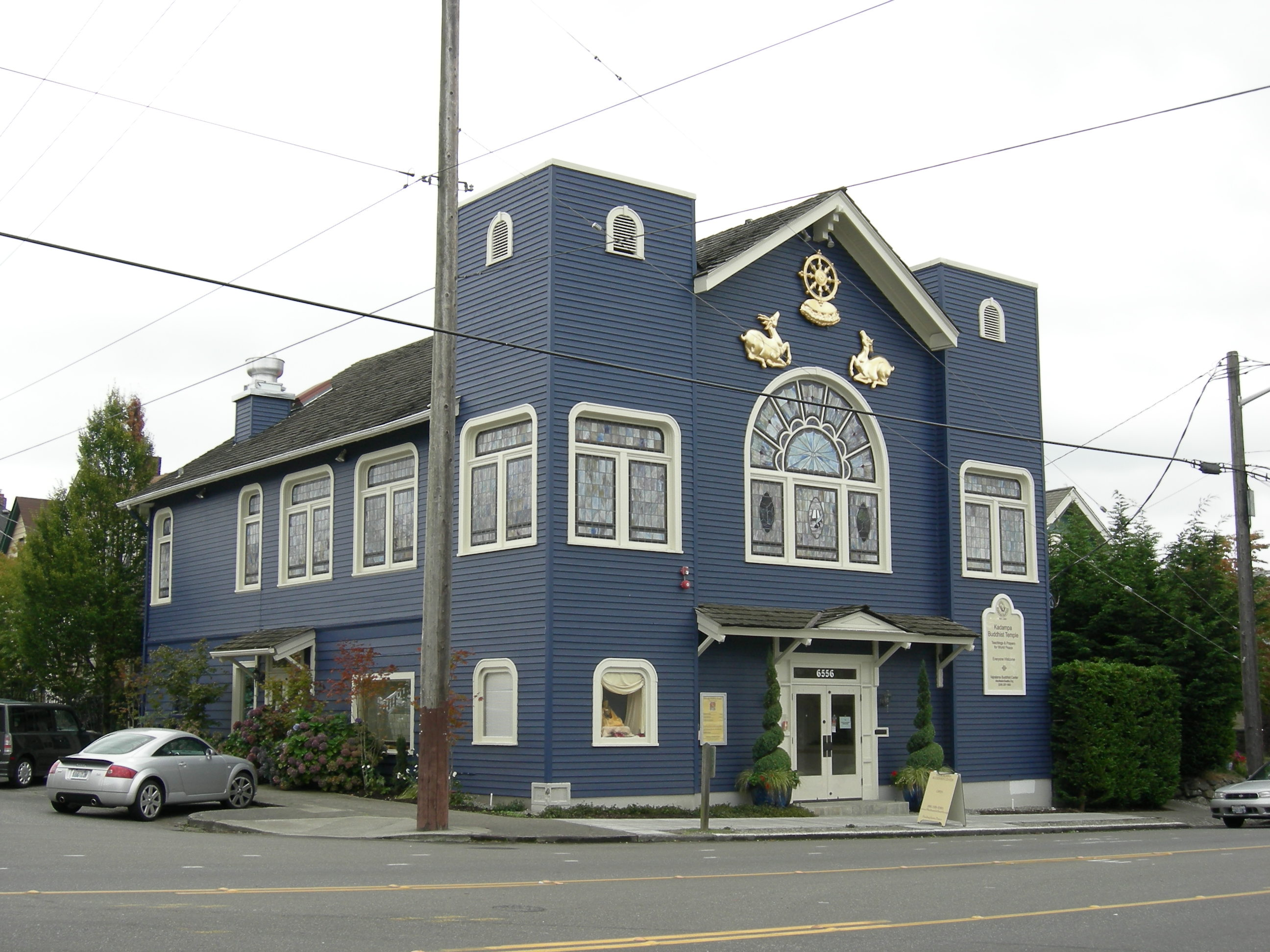 Kadampa Buddhist Temple, 6556 24th Ave NW (Ballard neighborhood) Seattle, Washington, USA